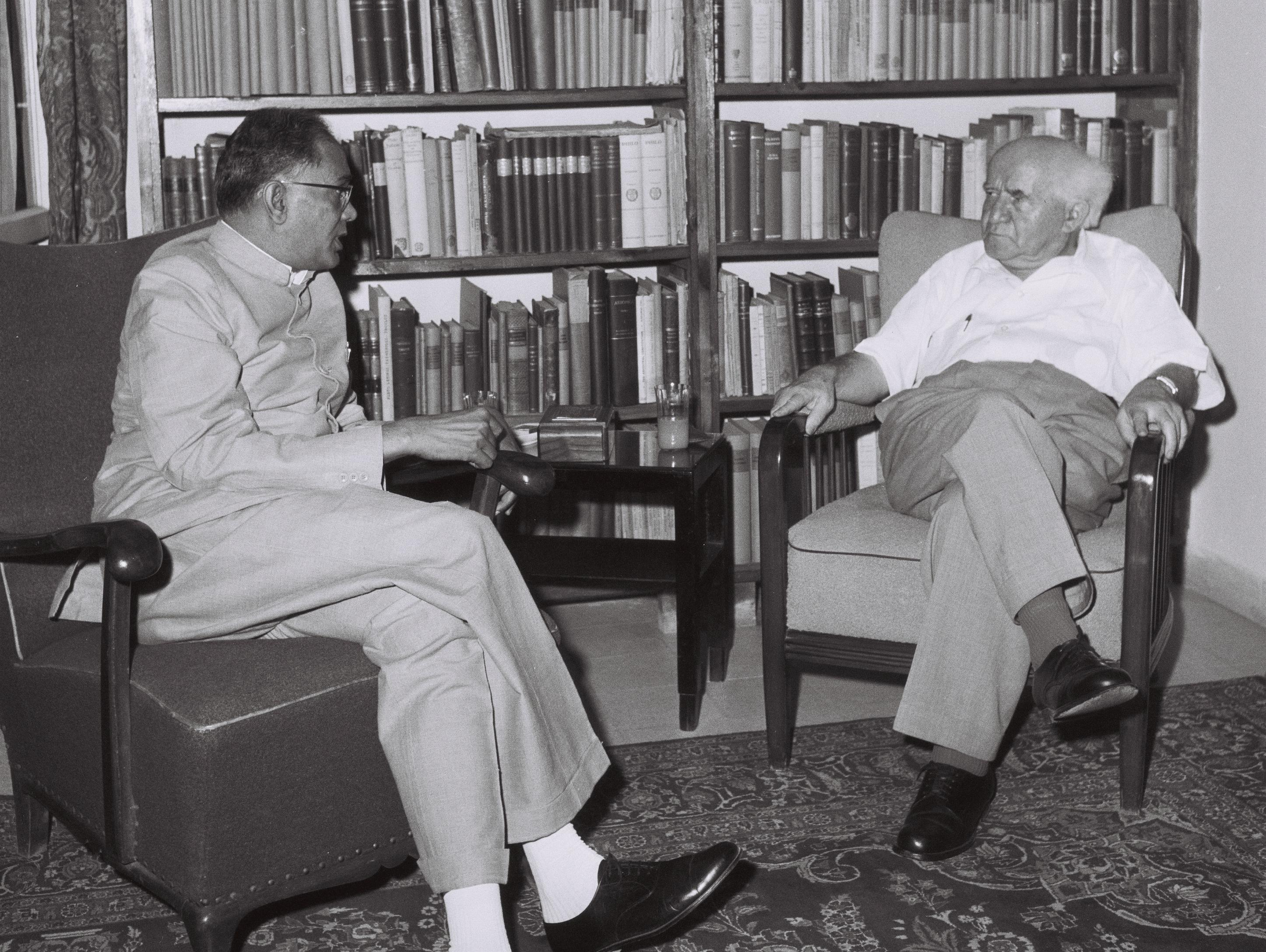 Indian socialist leader J. P. Narayan with Israeli Prime Minister David Ben-Gurion in Tel Aviv, 1958.